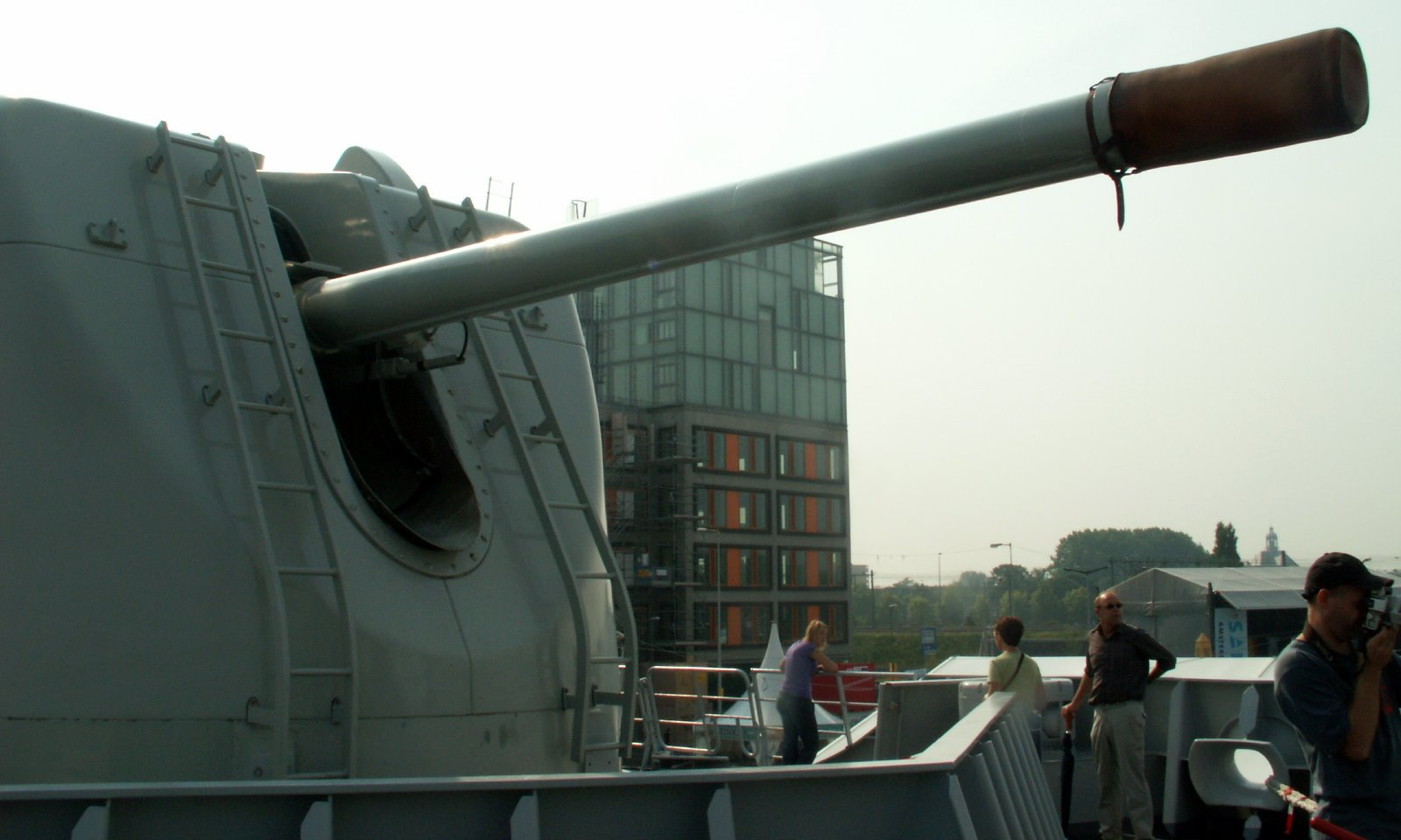 An Otobreda 127/54C naval gun mounted on the HNLMS De Ruyter a De Zeven Provinciën class frigate.